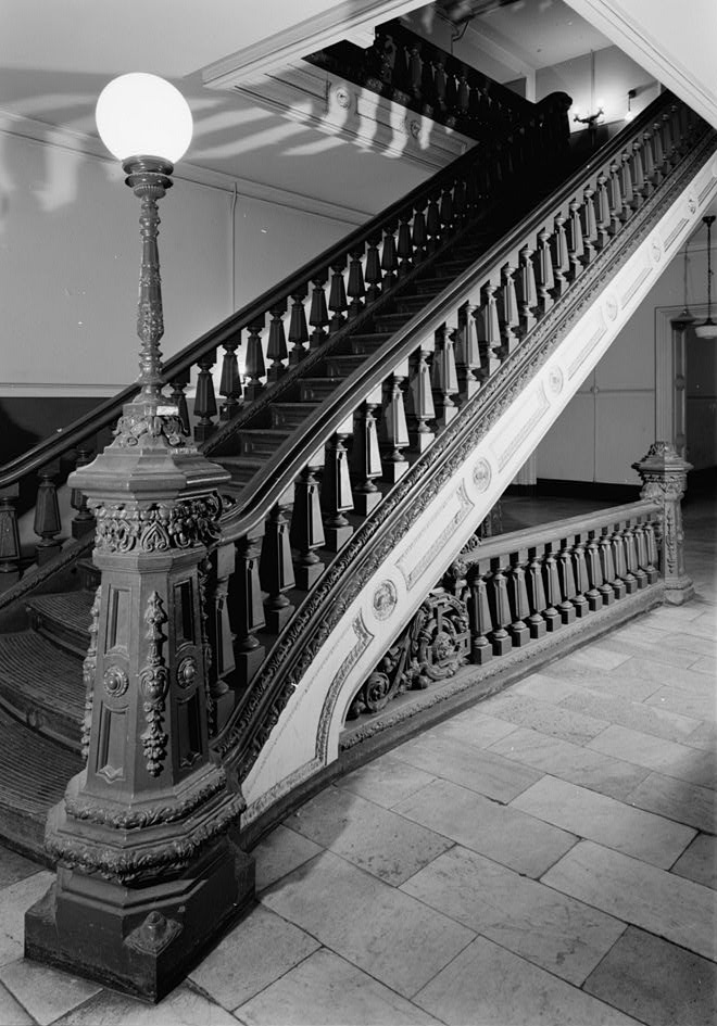 Tweed Courthouse on Chambers Street, New York, New York (Manhattan) - stairway, west wing, 2nd floor.